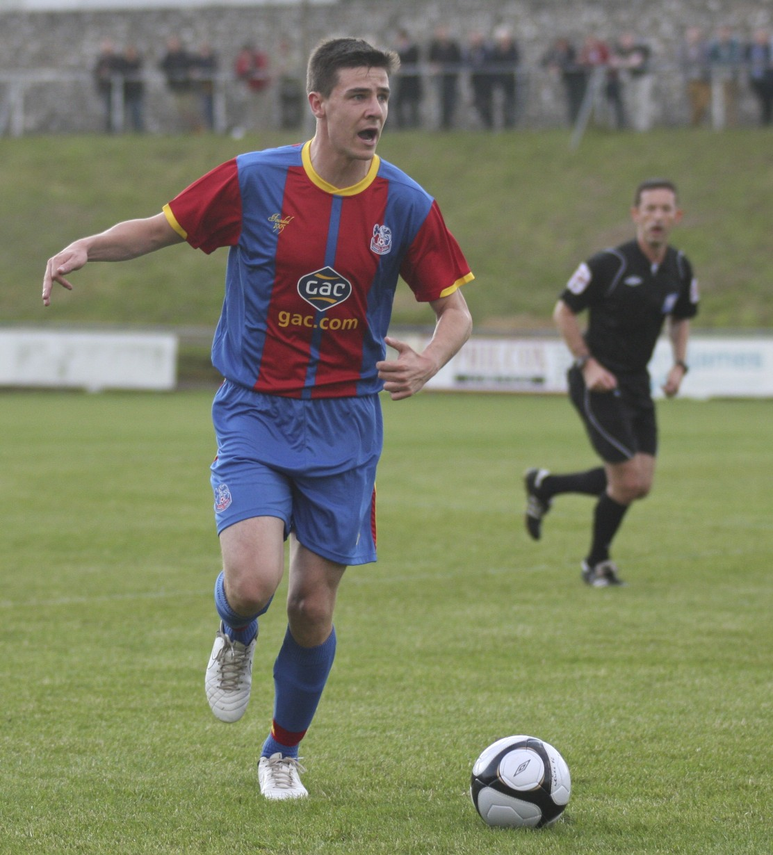 Owen Garvin playing for CPFC